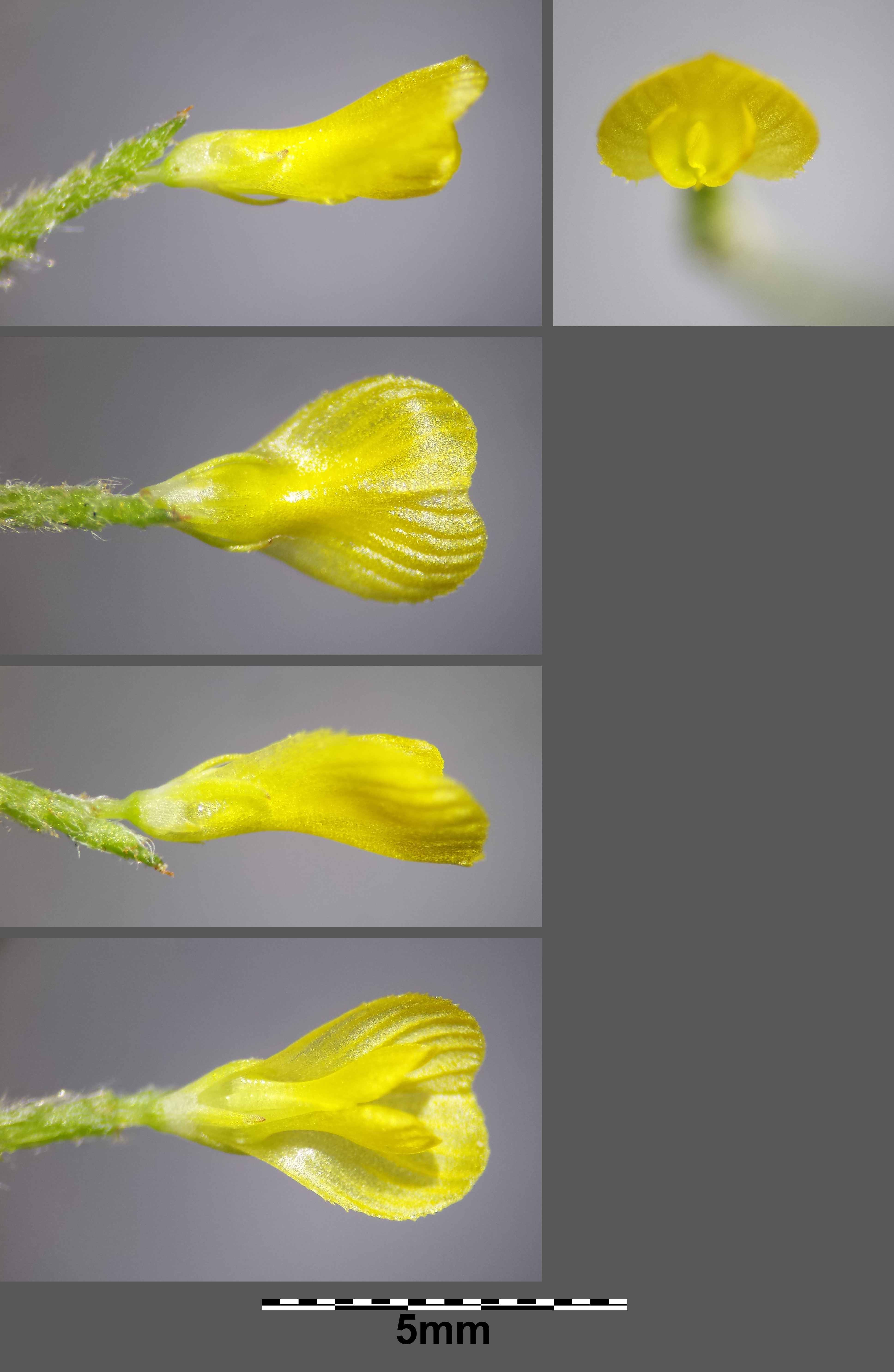 Flower Taxonym: Trifolium campestre ss Fischer et al. EfÖLS 2008 ISBN 978-3-85474-187-9 Location: Neue Donau, Vienna-Floridsdorf - ca. 160 m a.s.l. Habitat: dry meadows